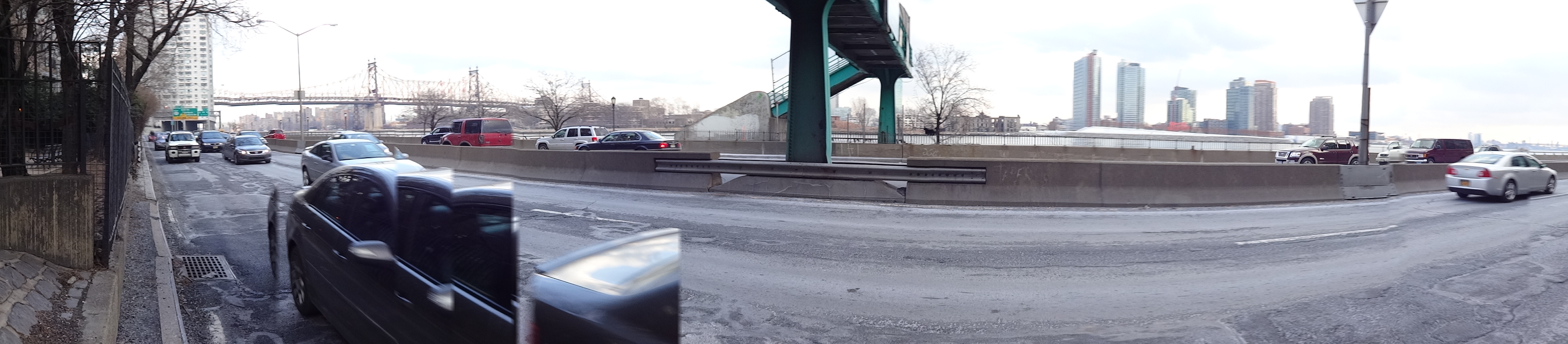 Example of how the panoramic image of camera Sony Cyber-Shot may get crashes when objects move quickly during the time of the photo. Image of Franklin D. Roosevelt East River Drive, with Roosevelt Island and Ed Koch Queensboro Bridge in the background.